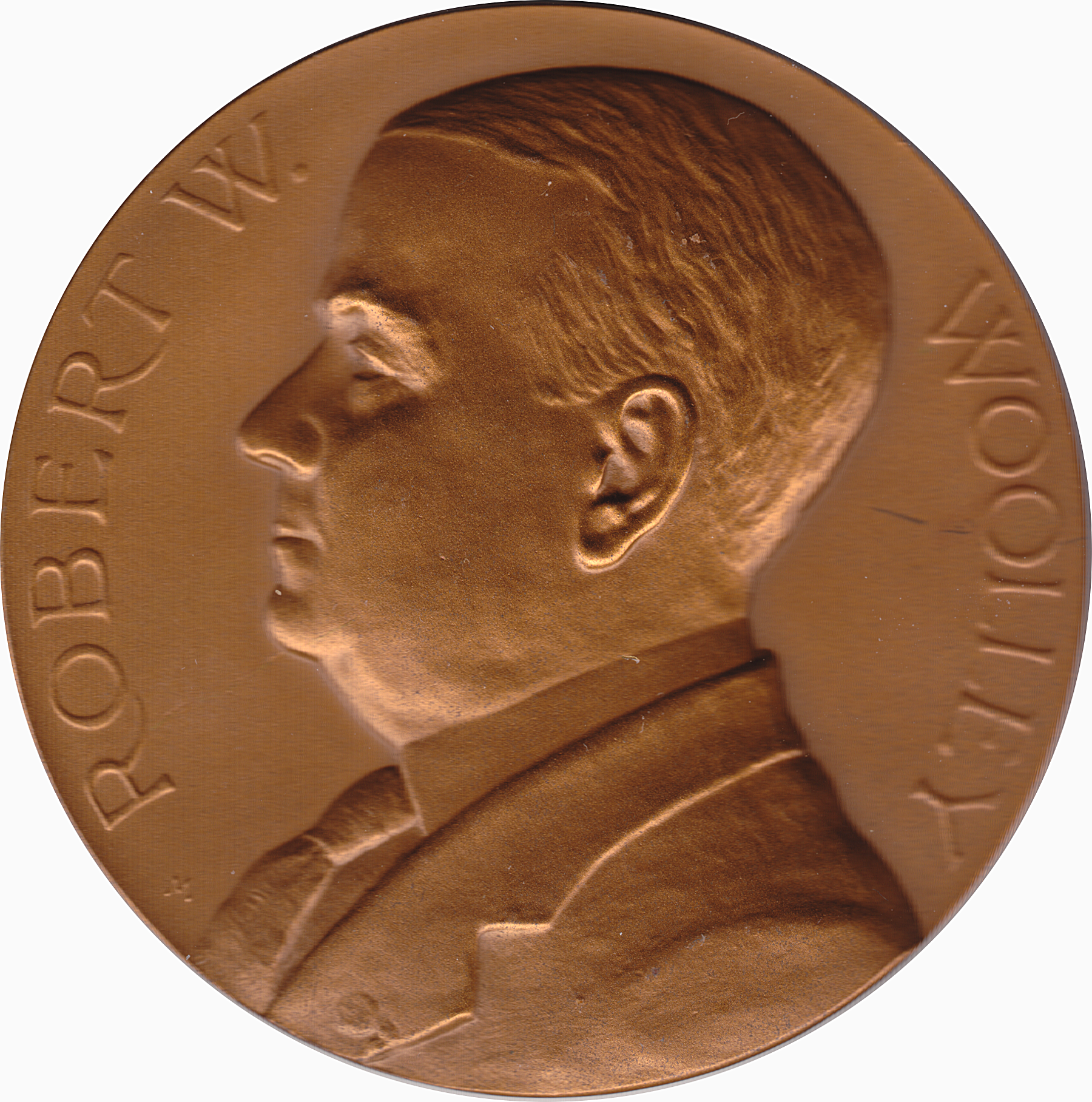 Mint medal for Mint Director Robert W. Woolley, designed by Assistant Engraver (later Engraver) George T. Morgan. Image taken 6/20/2011 by Wehwalt.